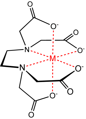 structure of Medta